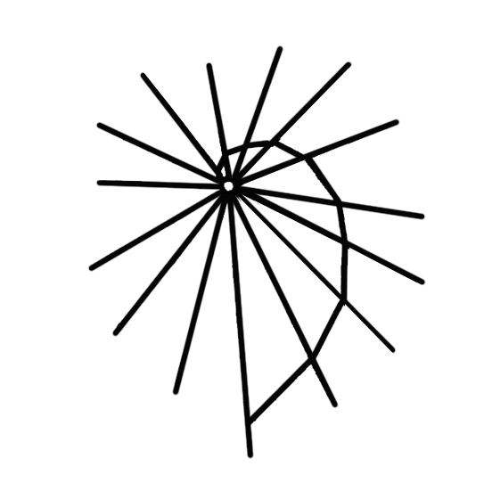 Schematic trajectory of a flying to the light of an insect by original from W. Von Buddenbrok, 1917. Die Lichtkompassbewegungen bei den Insekten, inbesondere den Schmetterlingsraupen